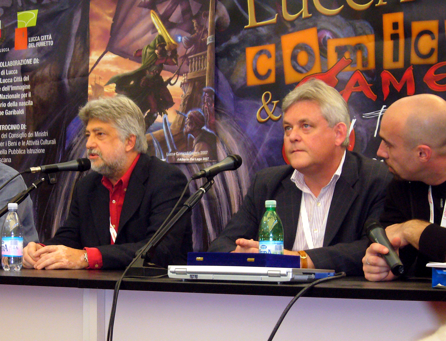 Lo scrittore inglese Joe Dever, a sinistra il direttore della collana librogame Giulio Lughi. English writer Joe Dever, on the left the chief of "librogame" italian series, Giulio Lughi.